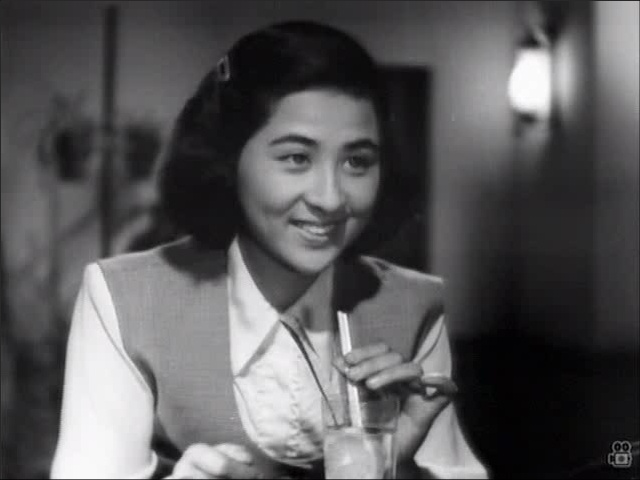 Kyōko Kagawa in 1950 Japanese movie Hiroine of Tokyo